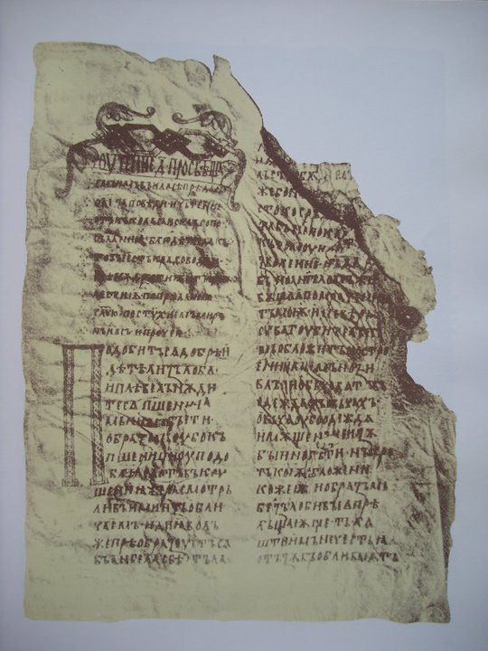 Hilandar Lists